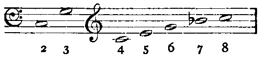 Musical notation showing the harmonic scale of the saxhorn.